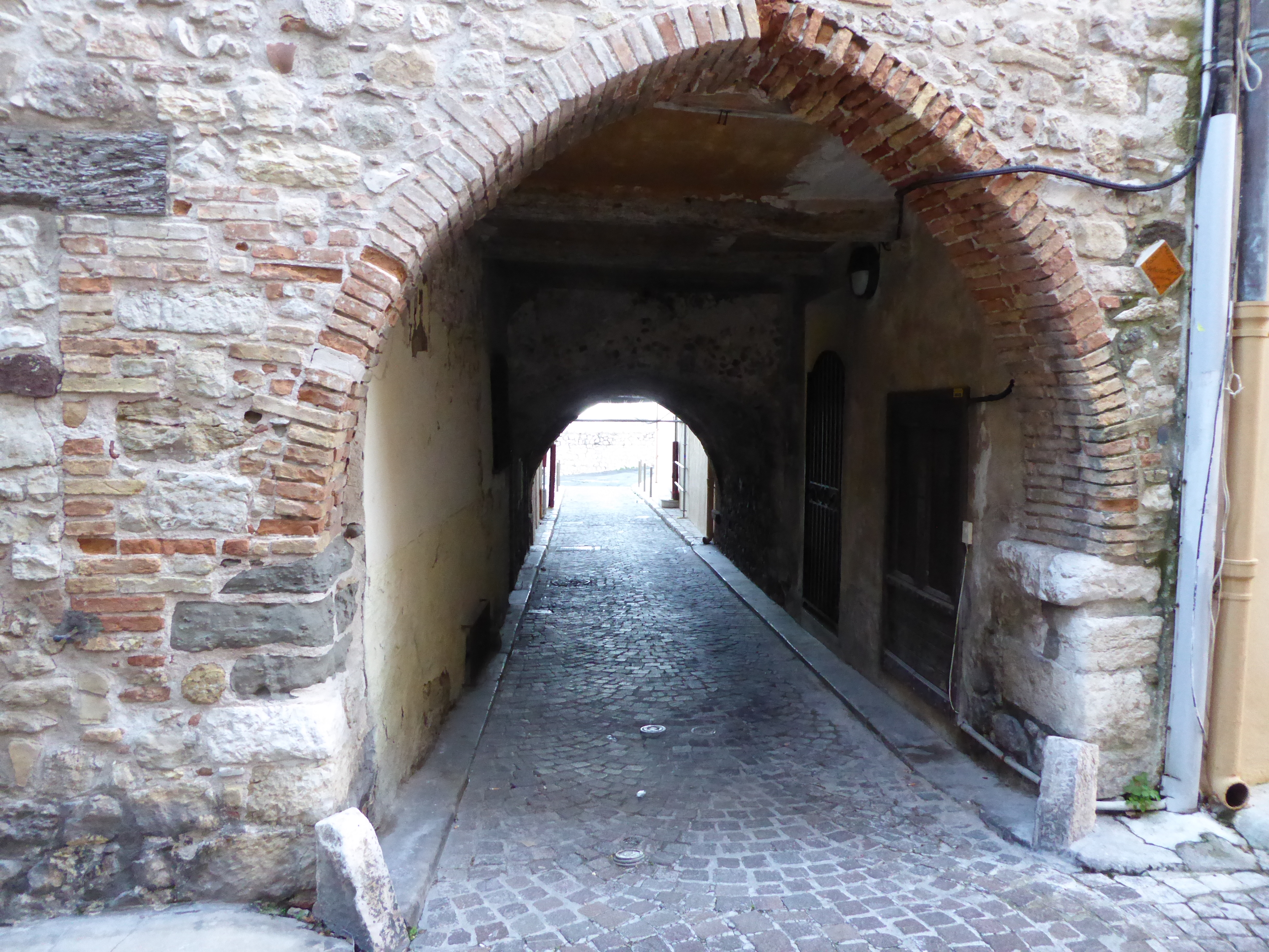 Rue des Arceaux, Antibes